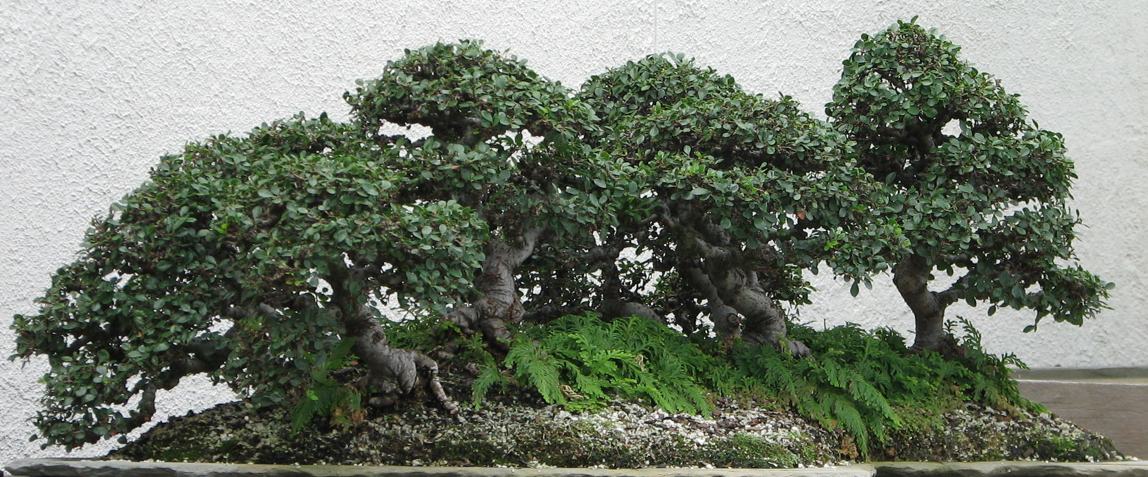 A Chinese Elm (Ulmus parvifolia) bonsai on display at the National Bonsai & Penjing Museum at the United States National Arboretum. According to the tree's display placard, it has been in training since 1988. It was donated by Susanne Barrymore.